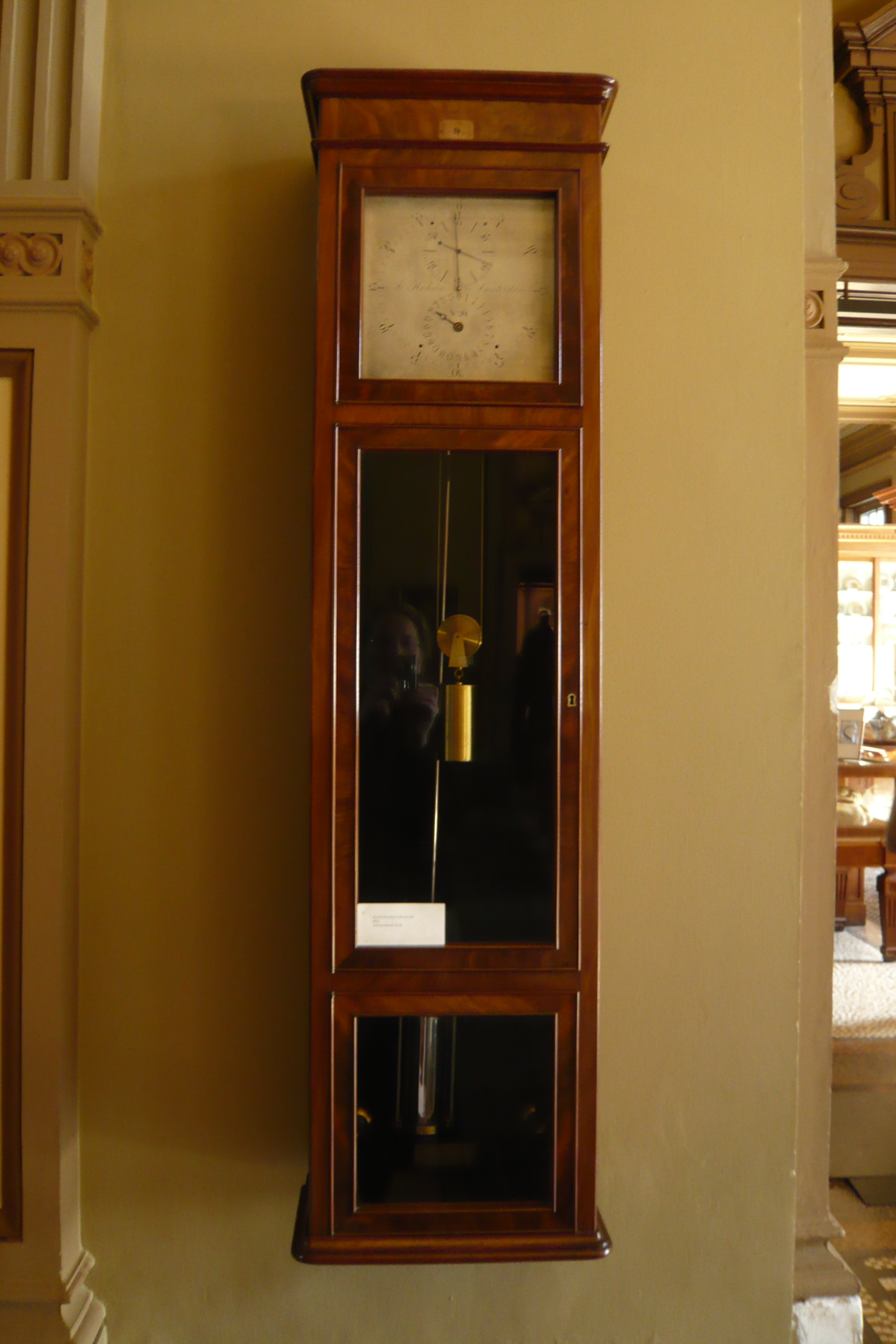 Andreas Hohwü barometer, 1865, in the collection of the Teylers Museum